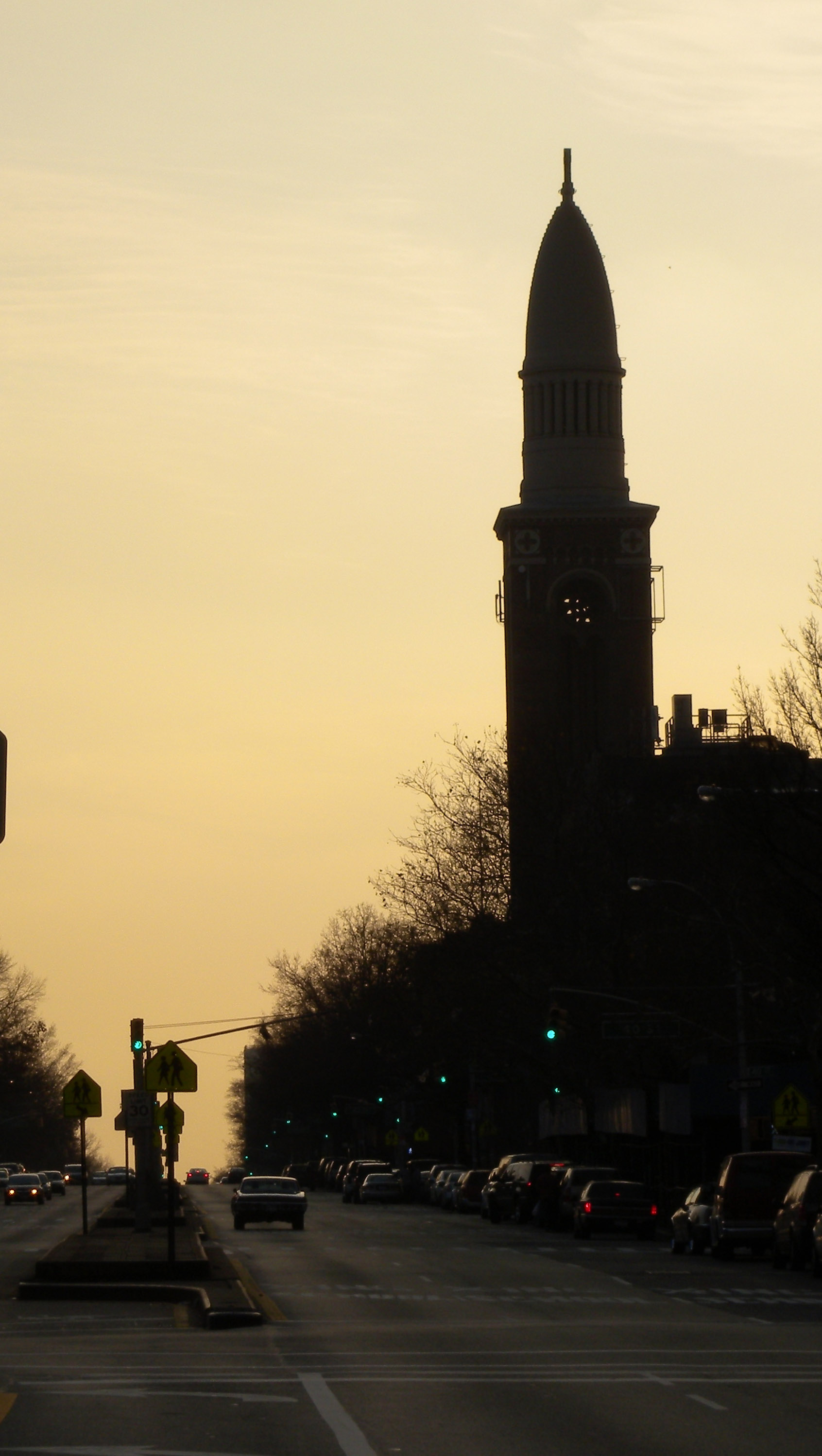 Looking southwest and up 4th Avenue towards St Michael's in Sunset Park, Brooklyn on a cloudy Thanksgiving afternoon.